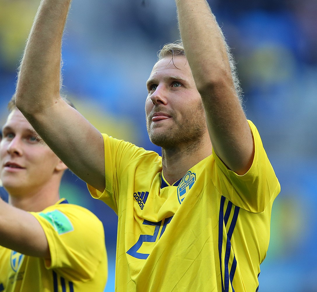 Ola Toivonen